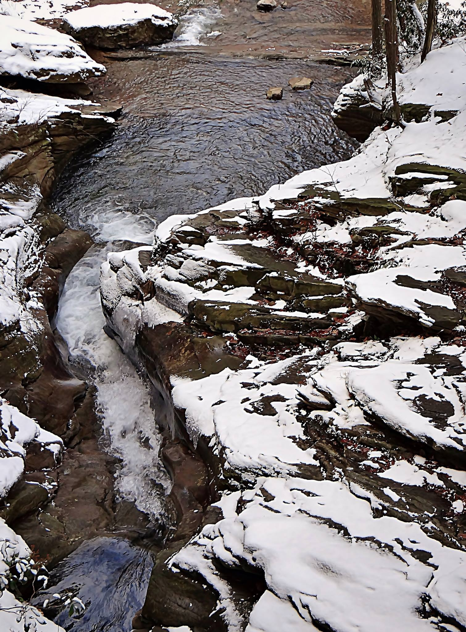 A natural landform consisting of 7 glacier created potholes in Plains Township, Luzerne County, PA USA.